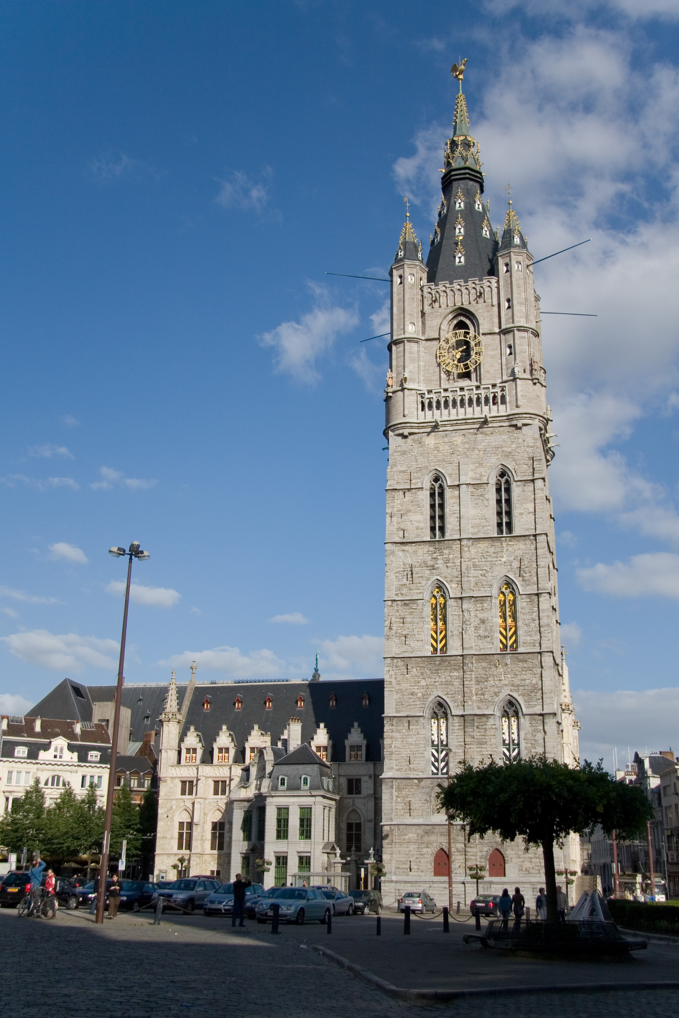 Belfry of Ghent